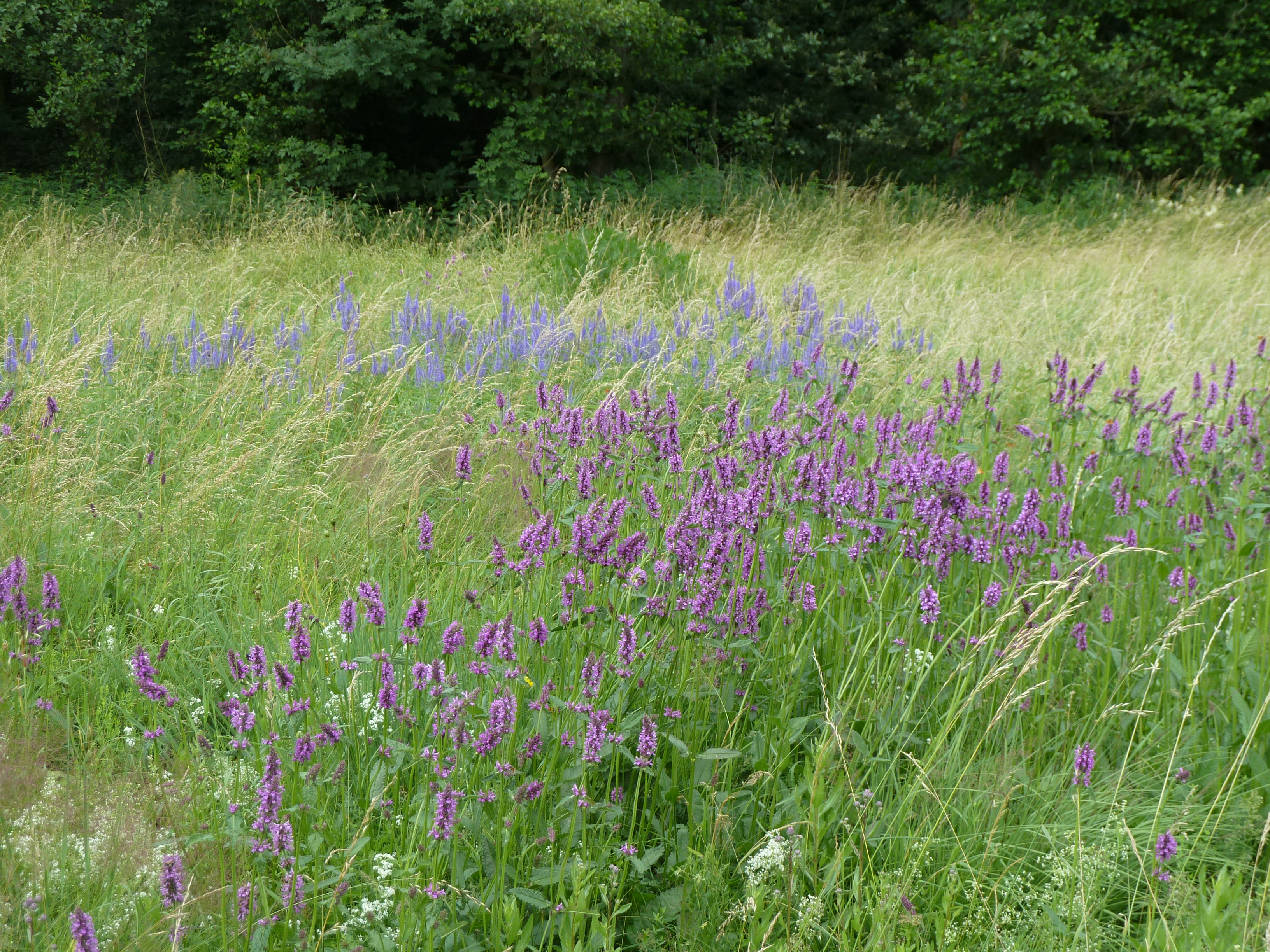 Vegetation in natural monument Daliboř (Betonica officinalis and Pseudolysimachion spicatum)